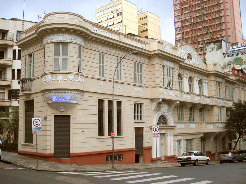 Tuyuti Building, historical building in Porto Alegre, Brazil